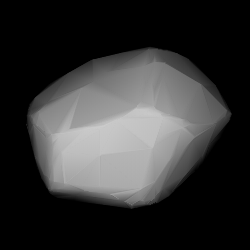 3D convex shape model of 1849 Kresák, computed using light curve inversion techniques. J. Hanuš, J. Ďurech, M. Brož, B. D. Warner (June 2011). "A study of asteroid pole-latitude distribution based on an extended set of shape models derived by the lightcurve inversion method". Astronomy and Astrophysics 530: A134. ISSN 0004-6361. arXiv